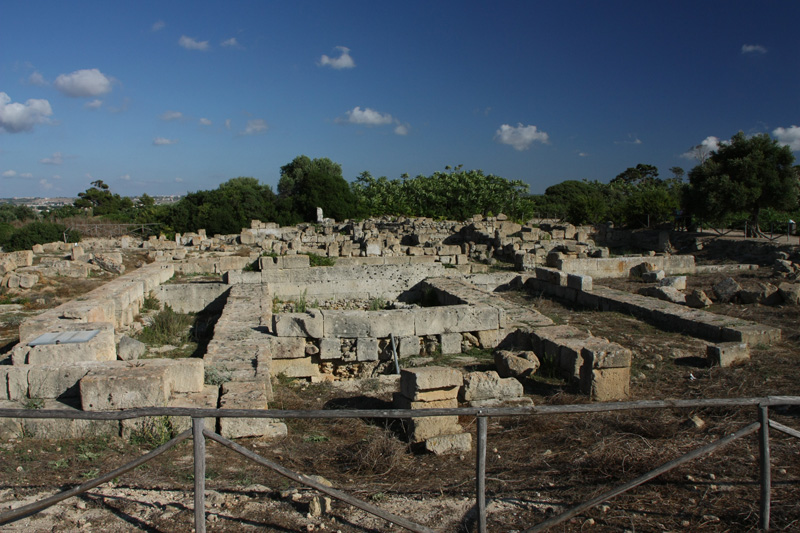 Capiddazzu Sanctuary